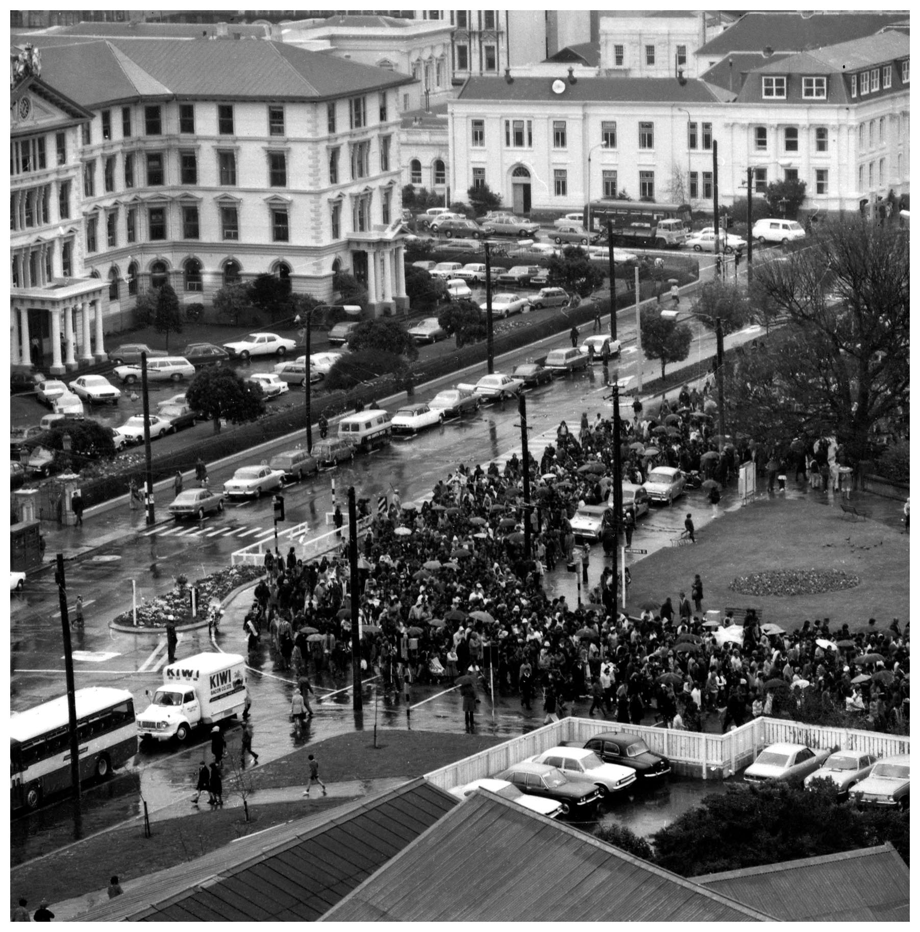 On 13 October 1975, a hikoi of 5,000 marchers arrived at Parliament to protest the ongoing alienation of Māori land. Organised by Māori land rights group Te Rōpū O Te Matakite and led by Dame Whina Cooper, the hikoi had departed from Te Hapua, Northland, on 14 September, and arrived in Wellington after marching 1,100 kms throughout the North Island. Te Rōpū O Te Matakite regarded the land march as ‘a climax to over a hundred and fifty years of frustration and anger over the continuing alienation of their lands’. Upon their arrival at Parliament they presented a petition signed by 60,000 people from around New Zealand to Prime Minister Bill Rowling. The petition called for an end to monocultural land laws which excluded Māori cultural values, and asked for the ability to establish legitimate communal ownership of land within iwi. The hikoi represented a watershed moment in the burgeoning Māori cultural renaissance of the 1970s. It brought unprecedented levels of public attention to the issue of alienation of Māori land, and established a method of protest that was repeatedly reused in the following decades. To mark the 40th anniversary of the Land March, Archives New Zealand has created an album on Flickr to highlight key documents within our holdings that relate to the event. These include the petition with 60,000 signatures presented by Dame Whina Cooper to Prime Minister Bill Rowling, images of the Land March approaching Wellington City and correspondence related to the planning that went on behind the scenes to support the march taking place. This image is from the Public Works Department showing the Land March group entering the grounds of Parliament. Archives Reference: ABKK 24414 W4358 539 For updates on our On This Day series and news from Archives New Zealand, follow us on Twitter: Material from Archives New Zealand